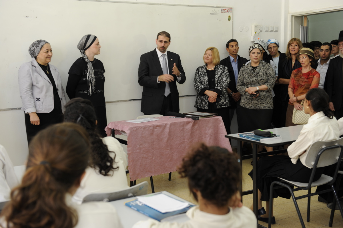 U.S. Ambassador Dan Shapiro visit the city of Beni Brak U. S Ambassador Dan Shapiro and Ms Julie Fisher made a pre-Rosh Hashanah visit to Bnei Brak. There they met with Mayor Rabbi Yaakov Asher and other city officials and learned first-hand about the economic developments, challenges and opportunities taking place in Bnei Brak within the ultra-orthodox communities. They took the opportunity to meet Rabbi Aharon Leib Steinman, prominent ultra-orthodox spiritual leader of the Lithuanian communities, at his residence. There they heard Rabbi Steinman praise America, echoing the words engraved in the Statue of liberty, for opening its doors to ”the poor and needy”, that is what made America great, the land of the free. Following this meeting, the Ambassador and his wife toured Ateret Rachel Women’s Seminary, where they met, among others, the president of the seminary , Mrs. Zippi Yishai; the principal of the school, Rebbetzin Zvia Bukhris; and Rabbi Zemach Mazuz, the head of Kisse Rahamim Yeshiva, Bnei Brak. The school receives US funded grant for English language instruction. They entered a class and spoke to the students, and took questions, on the importance of learning English. Another highlight was their visit to Mayanei Hayeshua Medical Center, where they were welcomed by Dr. Moshe Rothschild, the founder and president of the medical center, and Rabbi Gershon Lieder, CEO; and Dr. Motti Ravid the Medical Director; and many other senior doctors and staff. They got to see the premature baby wards and maternity wards, learning how the hospital combines medical care with strict ethical care to show the importance and holiness in saving human lives. Ambassador Shapiro ended the visit by shopping at a local deli and eatery on Rabbi Akiva Street. Behind the scenes Rabbi Moshe Eizen, CEO of Bnei Brak Development Fund, who helped make all the arrangements possible.